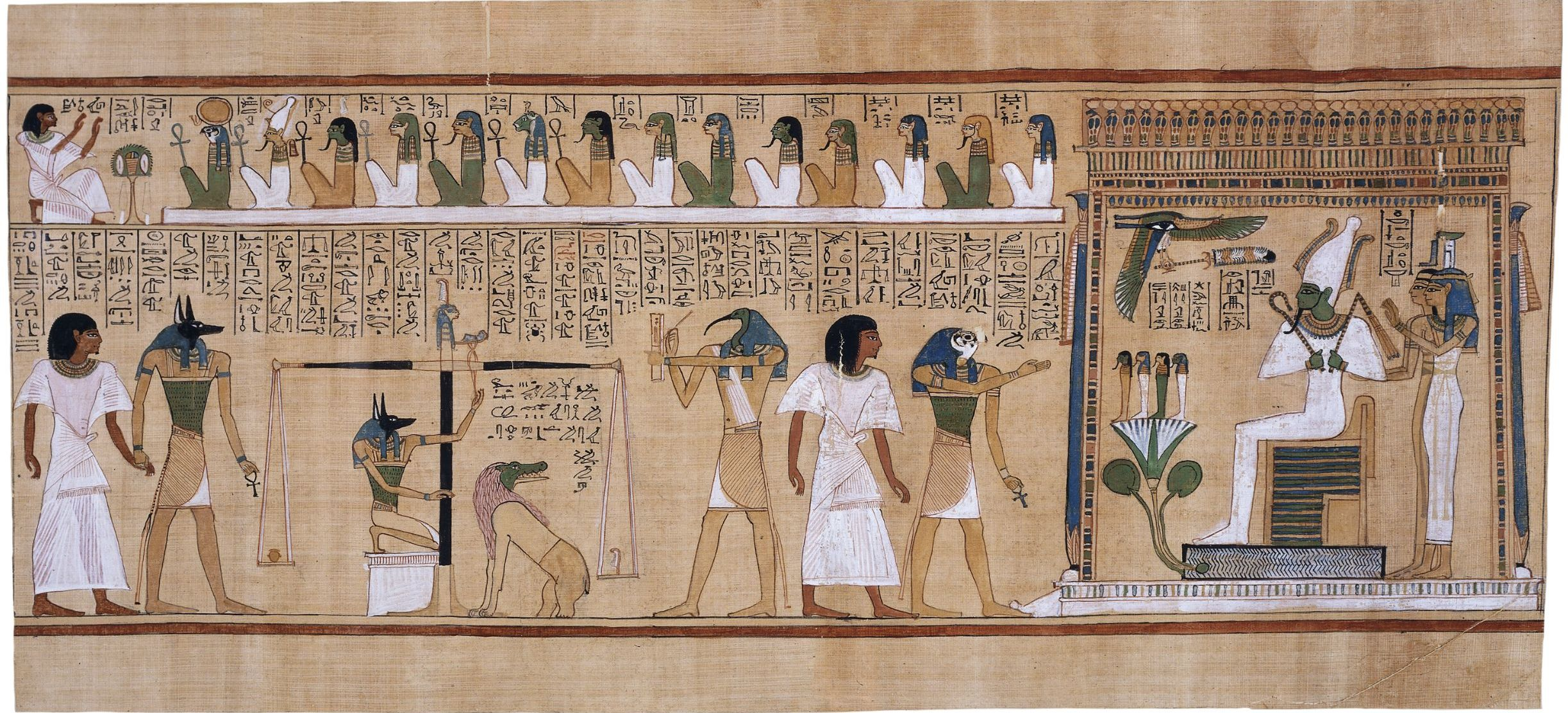 "This is an excellent example of one of the many fine vignettes (illustrations) from the Book of the Dead of Hunefer. The scene reads from left to right. To the left, Anubis brings Hunefer into the judgement area. Anubis is also shown supervizing [sic] the judgement scales. Hunefer's heart, represented as a pot, is being weighed against a feather, the symbol of Maat, the established order of things, in this context meaning 'what is right'. The ancient Egyptians believed that the heart was the seat of the emotions, the intellect and the character, and thus represented the good or bad aspects of a person's life. If the heart did not balance with the feather, then the dead person was condemned to non-existence, and consumption by the ferocious 'devourer', the strange beast shown here which is part-crocodile, part-lion, and part-hippopotamus. However, as a papyrus devoted to ensuring Hunefer's continued existence in the Afterlife is not likely to depict this outcome, he is shown to the right, brought into the presence of Osiris by his son Horus, having become 'true of voice' or 'justified'. This was a standard epithet applied to dead individuals in their texts. Osiris is shown seated under a canopy, with his sisters Isis and Nephthys. At the top, Hunefer is shown adoring a row of deities who supervise the judgement." A more detailed explanation of the scene can be found in the public domain The Book of the Dead, by E. A. Wallis Budge.[1]